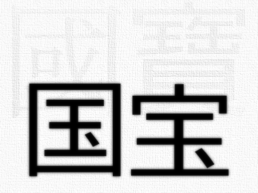 Kanji for "national treasure".